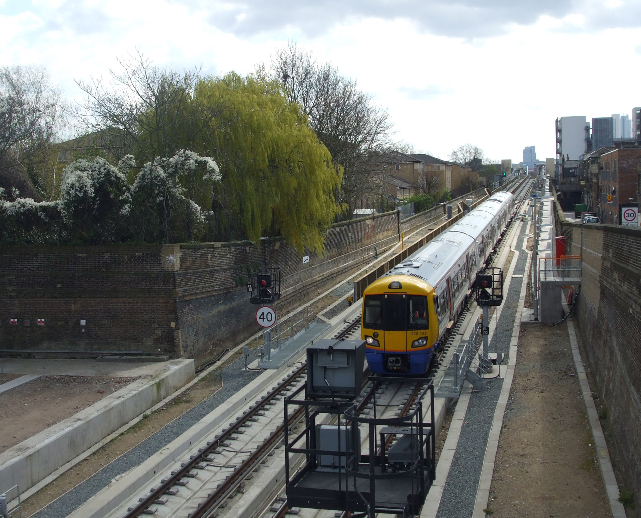 Class 378 unit 378153 (378/1 sub-class DC-only) approaches Dalston Junction on a test run prior to public opening in April 2010.